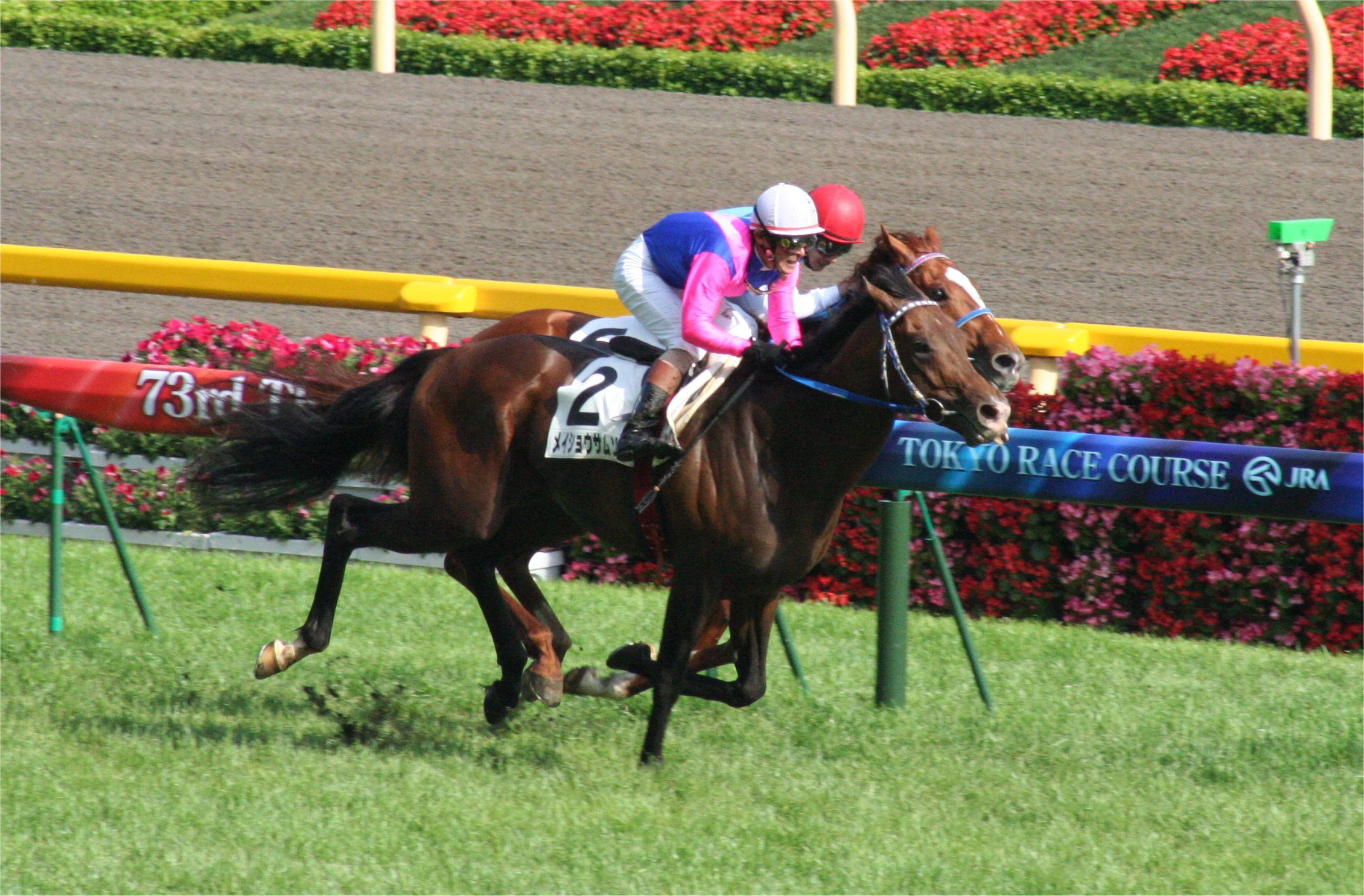 Meisho Samson & Admire Main(Tokyo Racecourse)